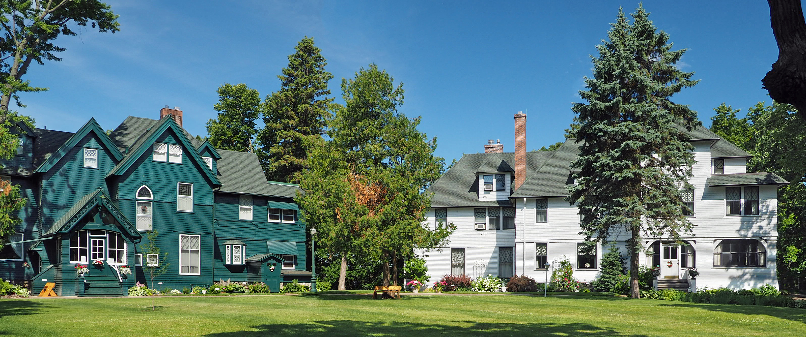 Charles A. Weyerhaeuser and Musser Houses, Linden Hill Historic Estate, 608 Highland Ave, Little Falls, Minnesota, USA. Viewed from the southeast.